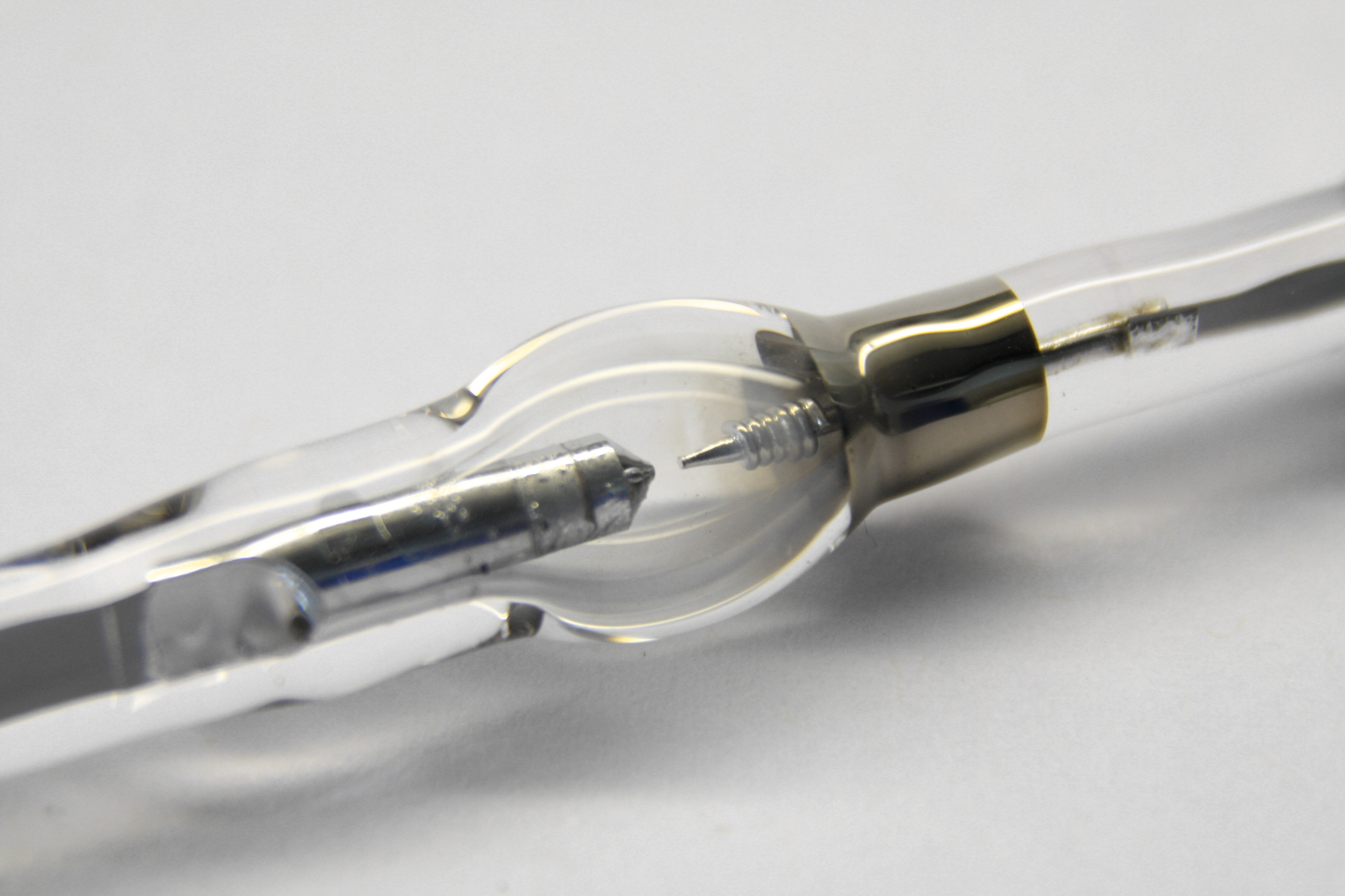 Detail of mercury arc bulb from an epifluorescence microscope.